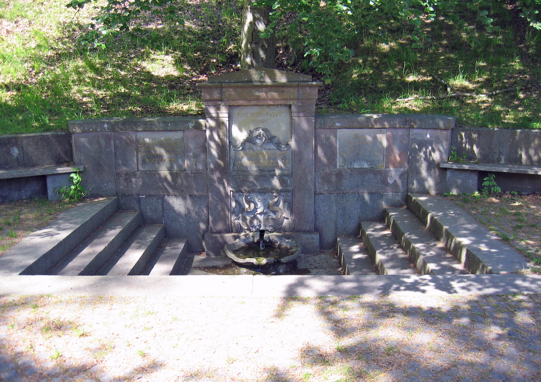 Kirsten Piils spring, Jægersborg Deer Park, Denmark.